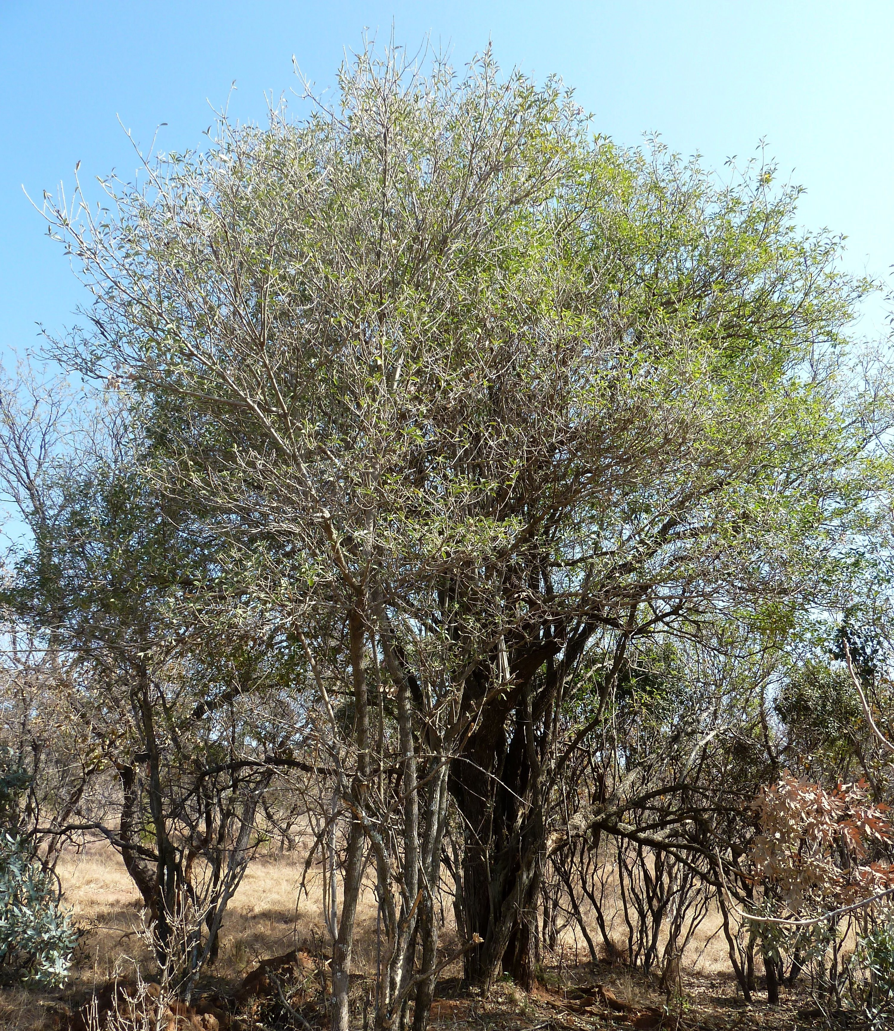 Habit of a Tinderwood in the Waterberg, South Africa